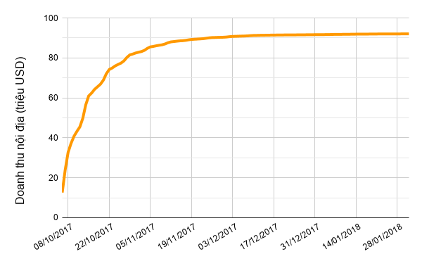 Line chart of the US and Canada box office of Blade Runner 2049 in Vietnamese